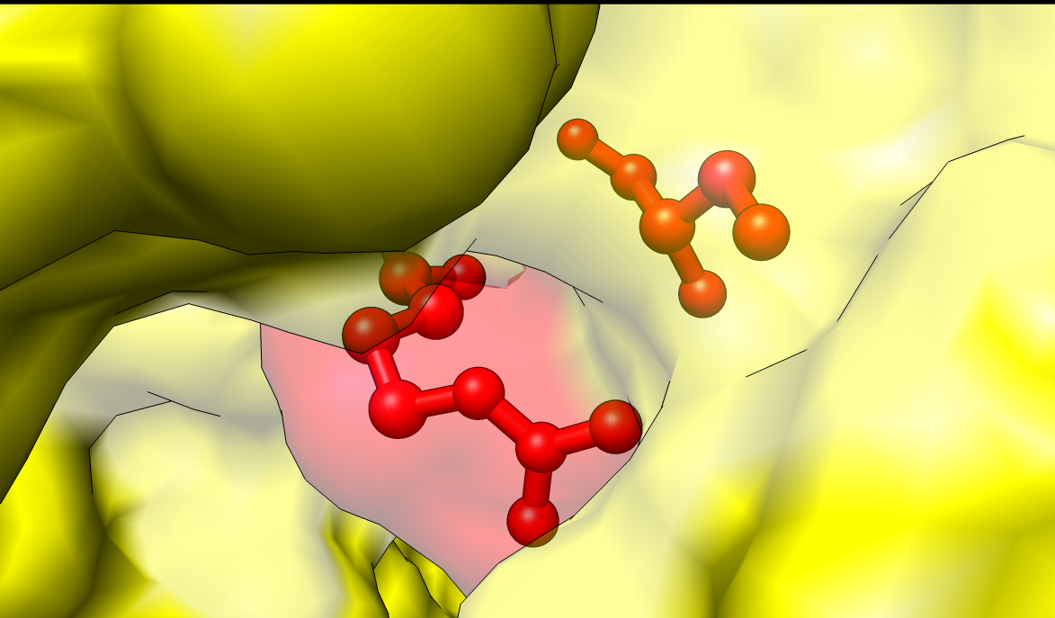 Zoomed in image of ubiquitin activating enzyme's active site cys and arg